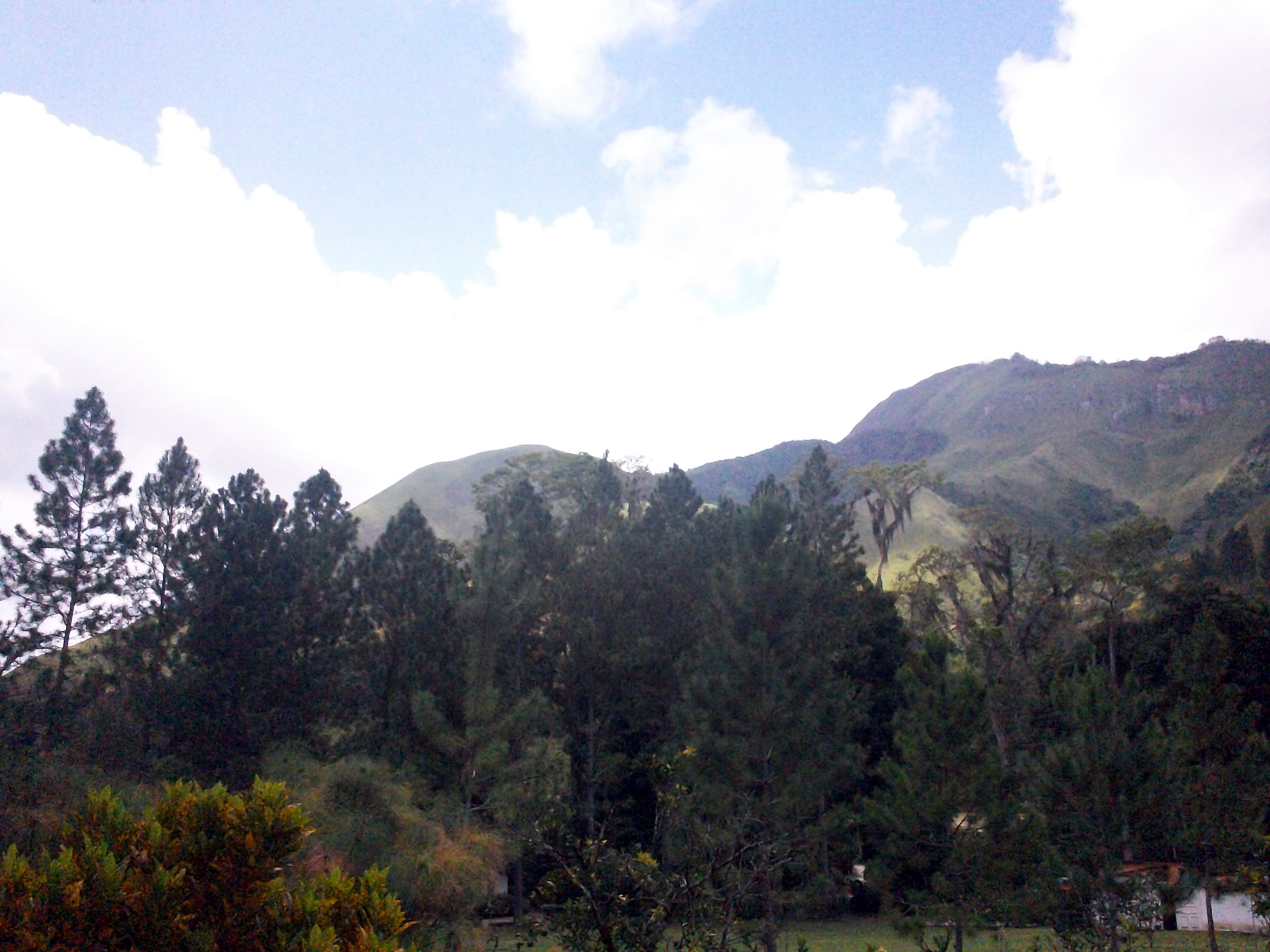 Valley Landscapes Caripe, Monagas, Venezuela